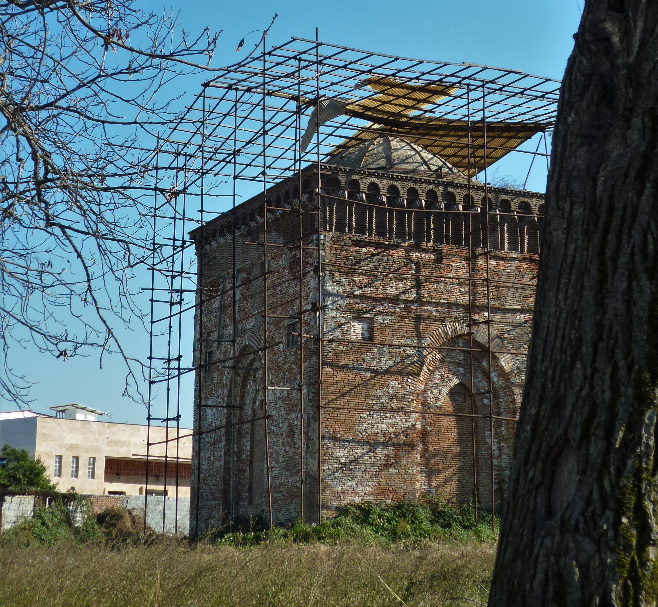 Fireplace of Amol